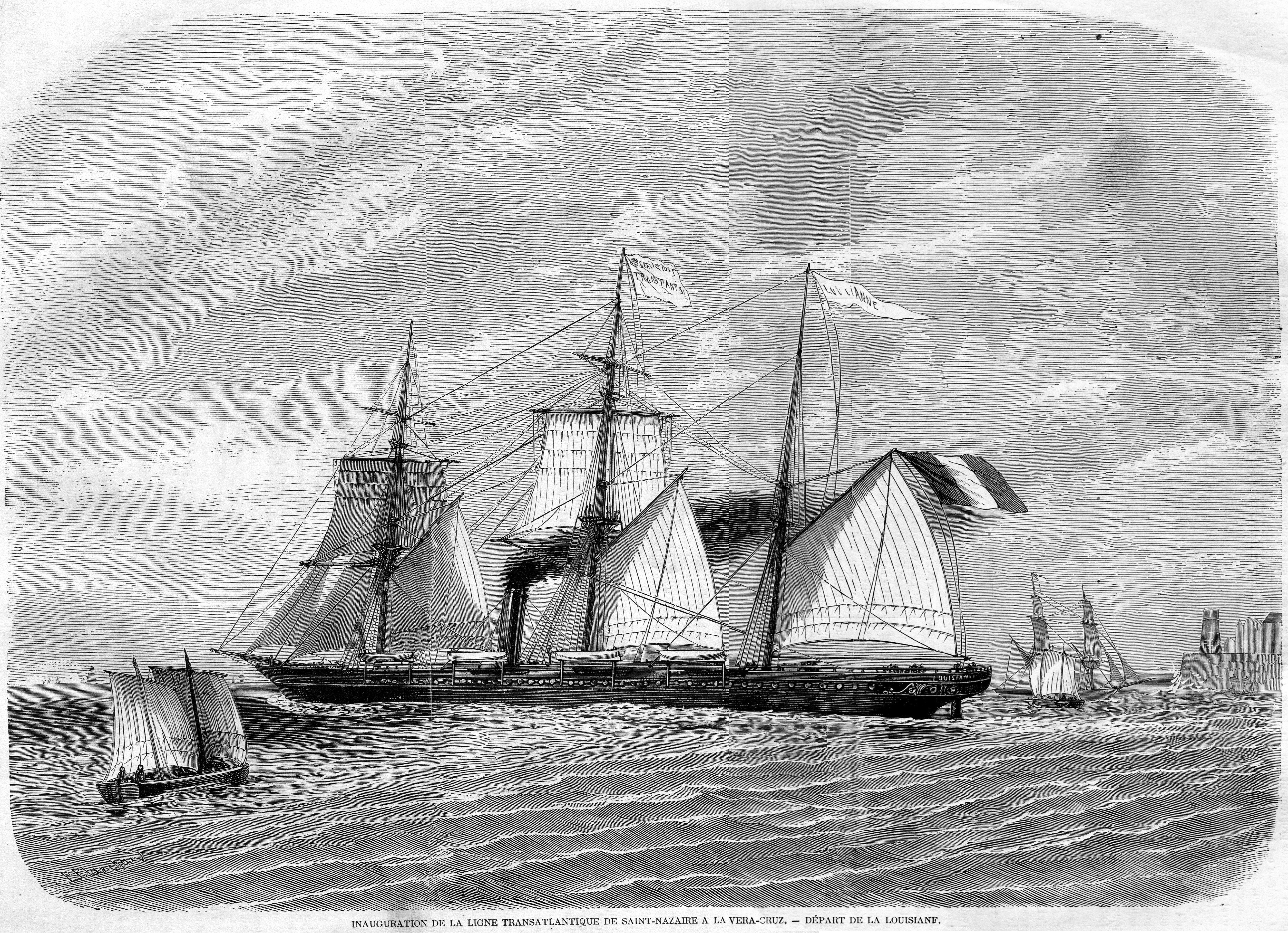 L'Illustration 1862 gravure USS Louisiana (1861)